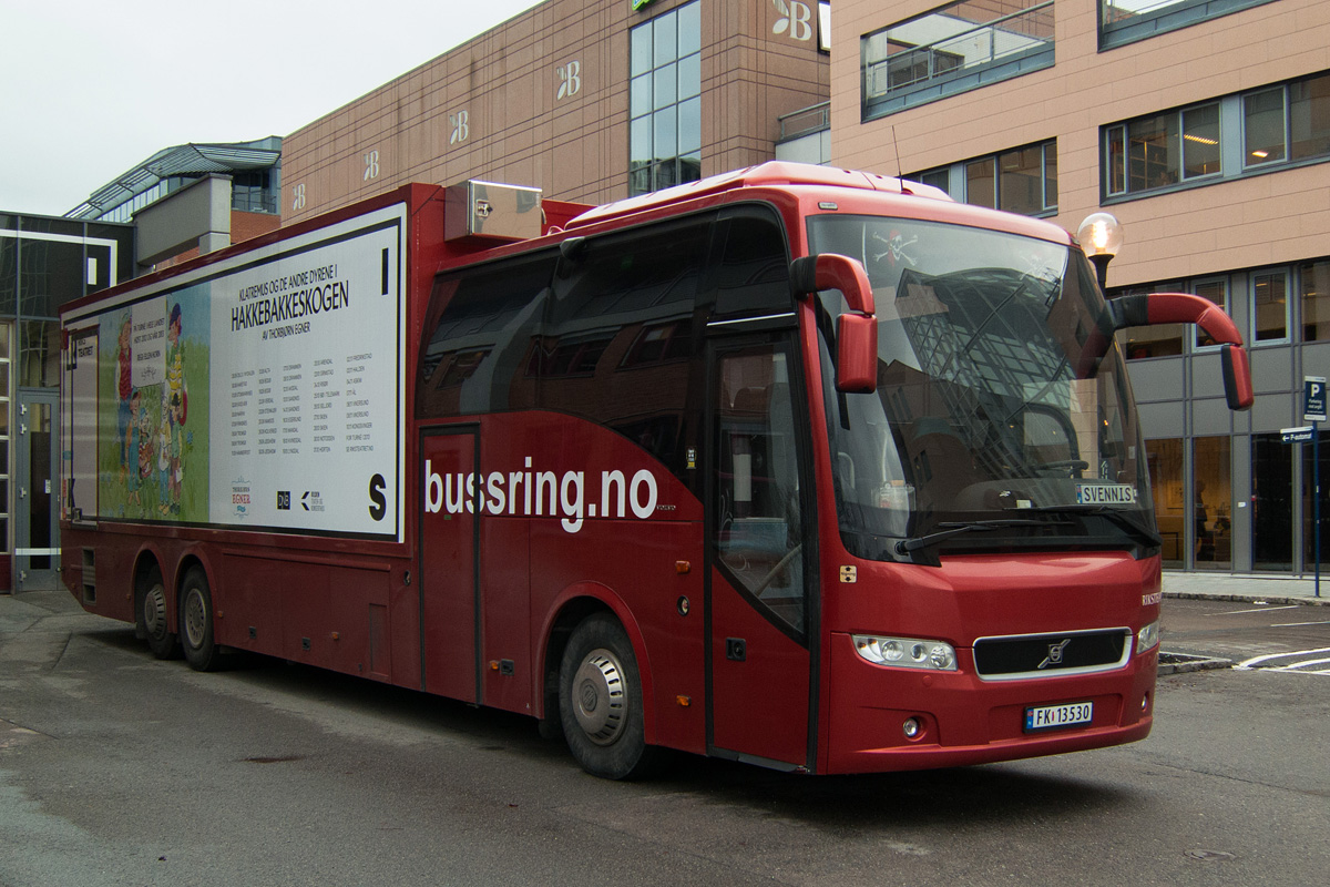 Riksteatret touring theatre coach outside the headquarters in Nydalen. Operated by Bussring.